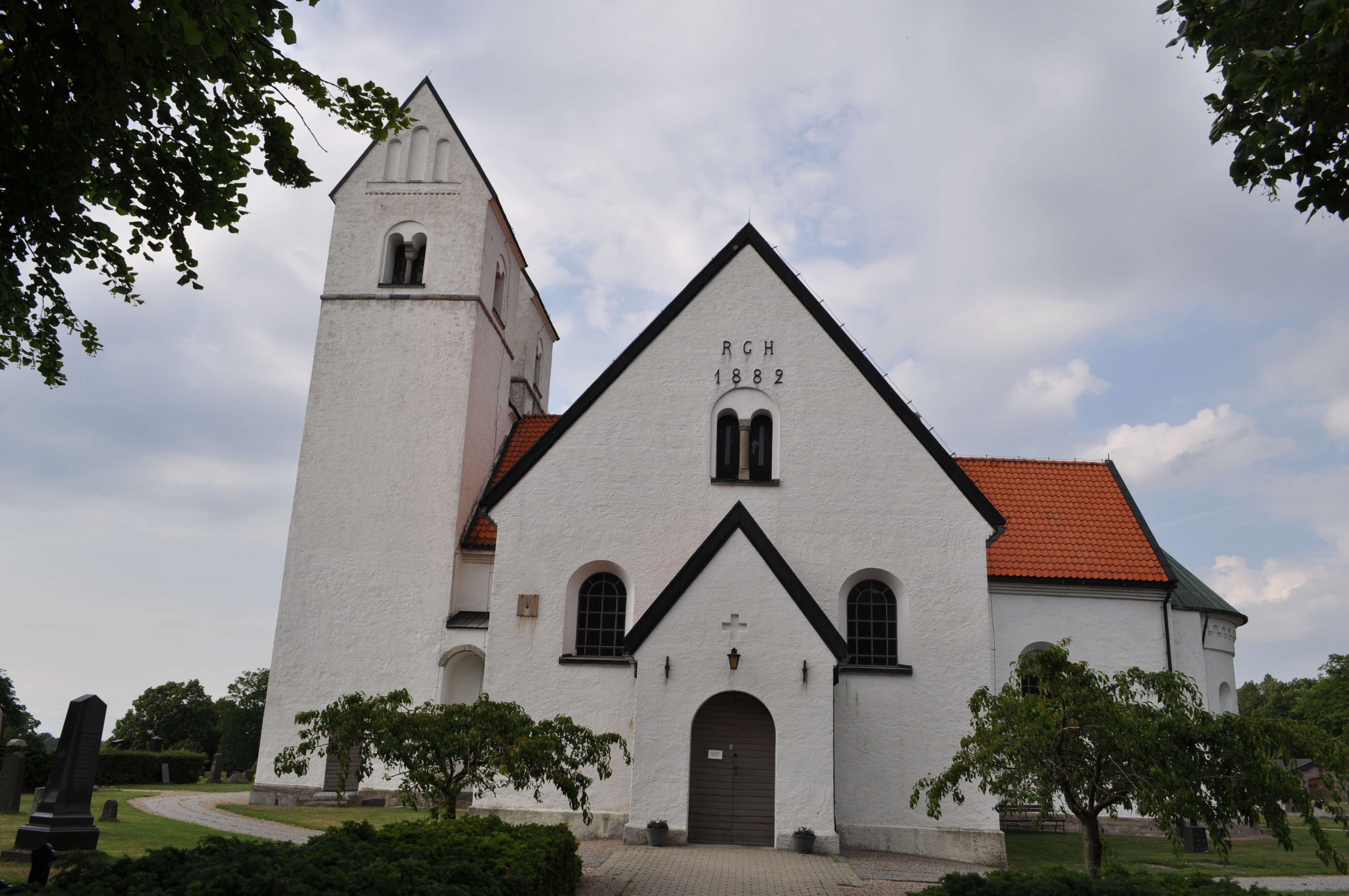 Färlövs church - kyrka